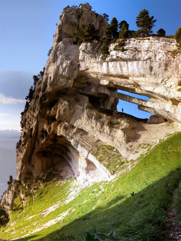 Situated in the Chartreuse mountains la Tour Percée is a unique double arch and at 32 meters the longest span in the Alps. The existence of this arch was only documented in 2005.